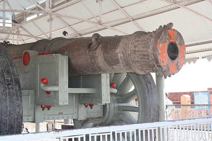 The barrel of Jaivan Canon at Jaigarh Fort